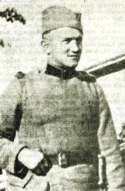 Matija Blejc-Matevž (1914-1942), Slovene partisan